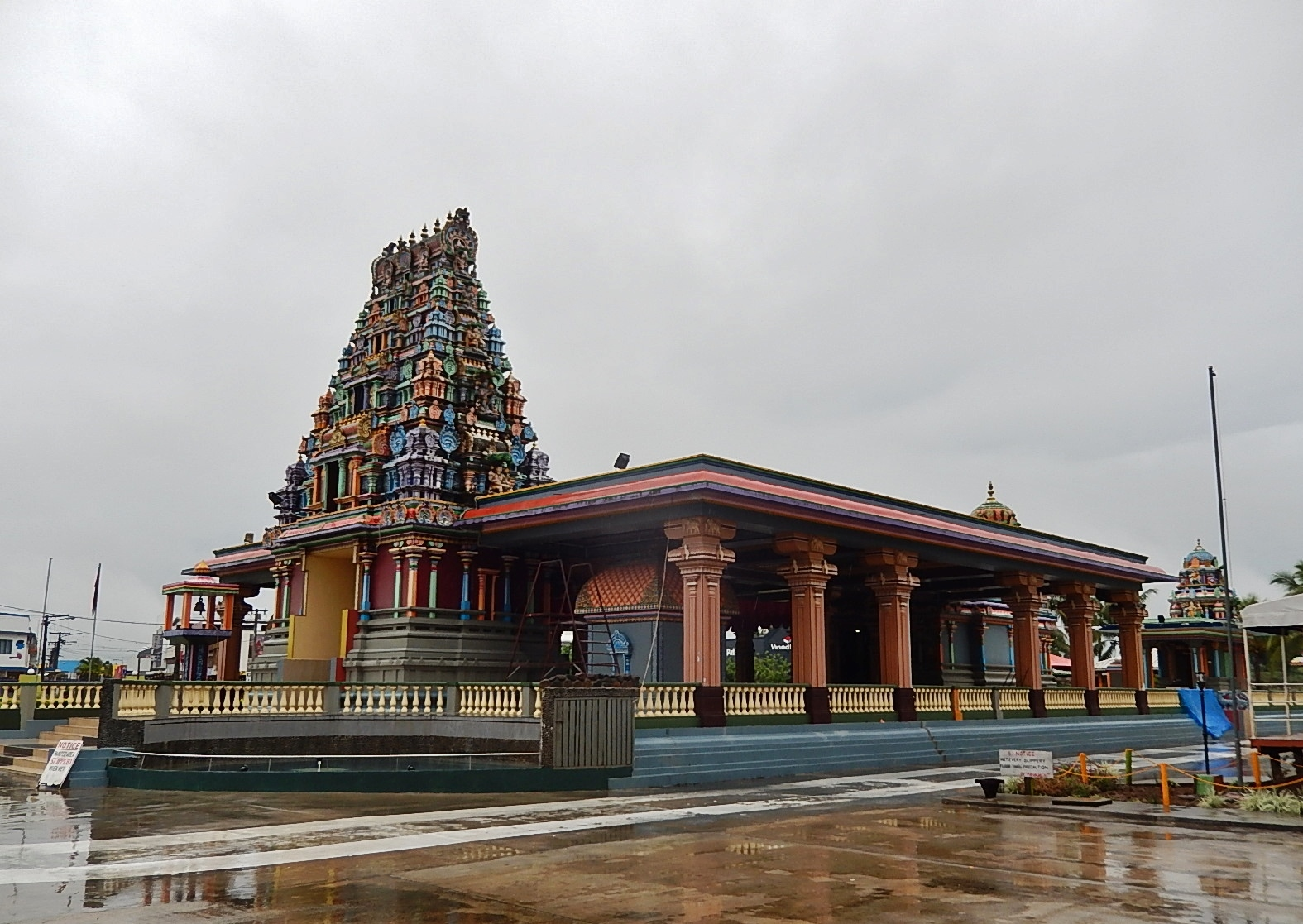 South Indian style Hindu temple in Fiji Hinduism in Fiji